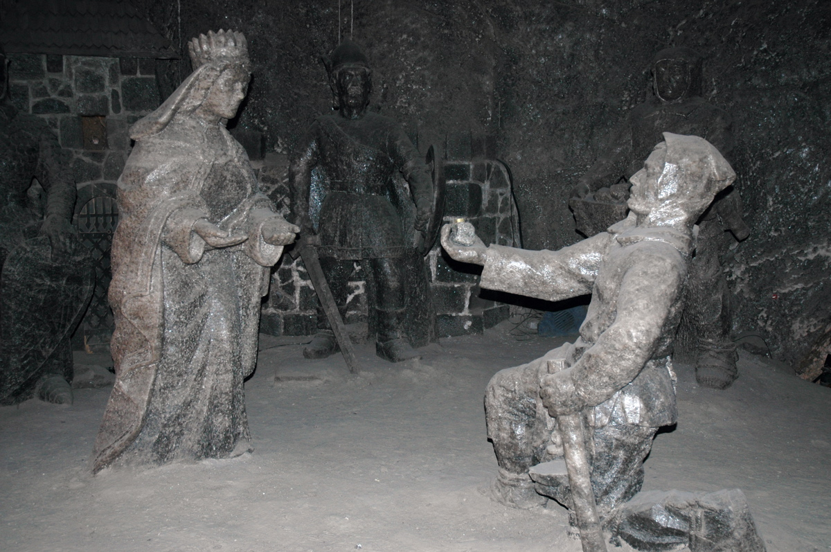 Salt statue of Kinga (Wieliczka Salt Mine, Janowice Chamber)